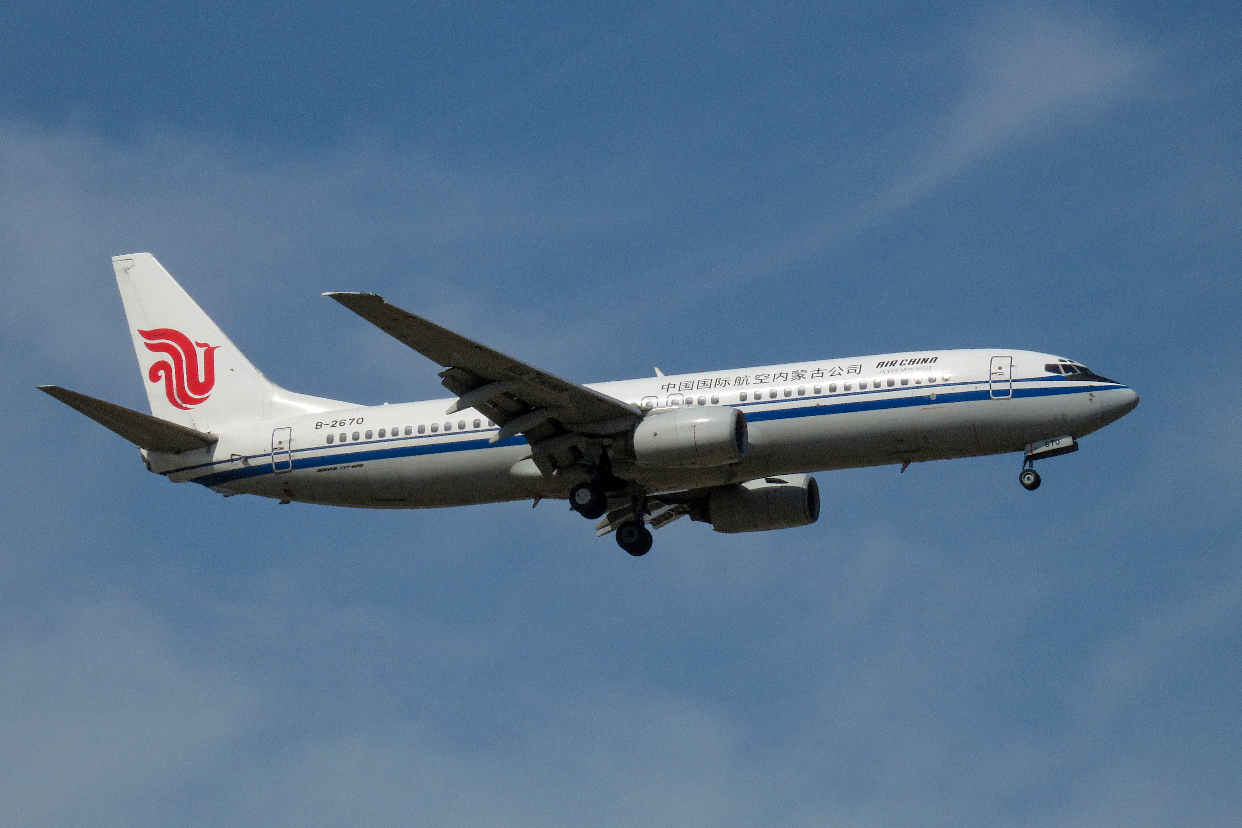 Mengyuan 1110 from Xilinhot. Old friend of RWY 01.